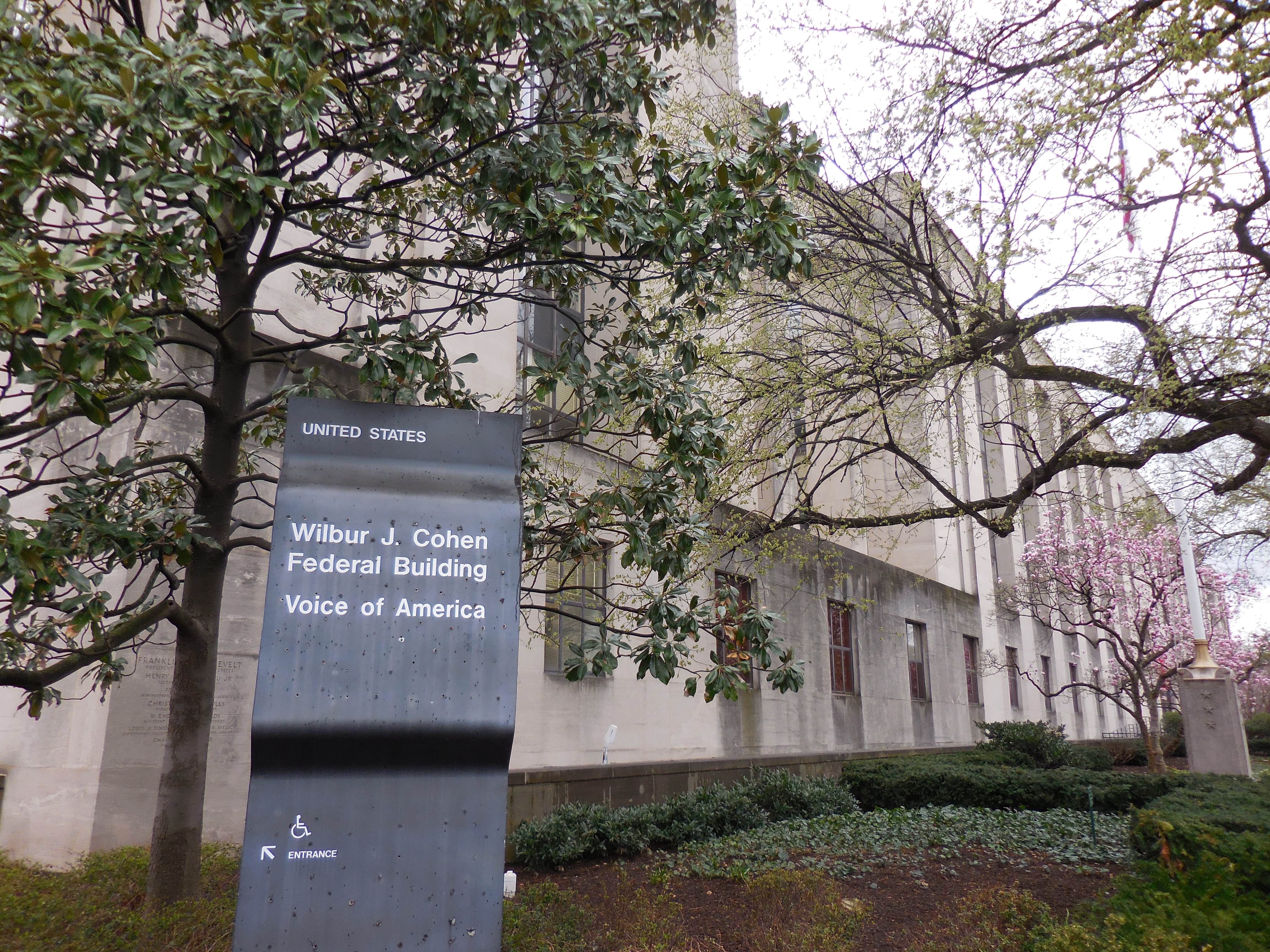 VOA Offices in Washington, DC